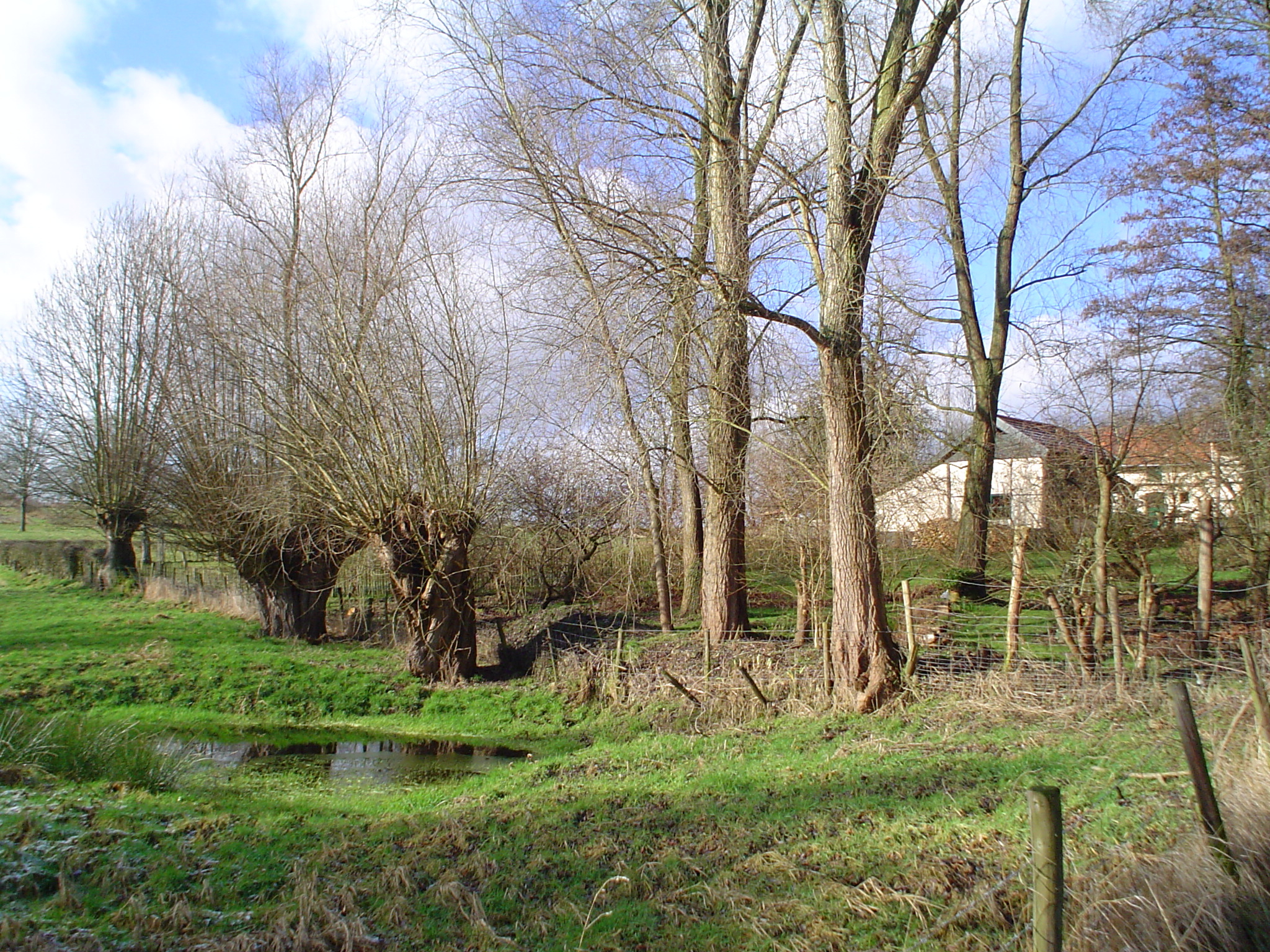 Small pond at the Nelisweg in the hamlet Helle, near Nuth